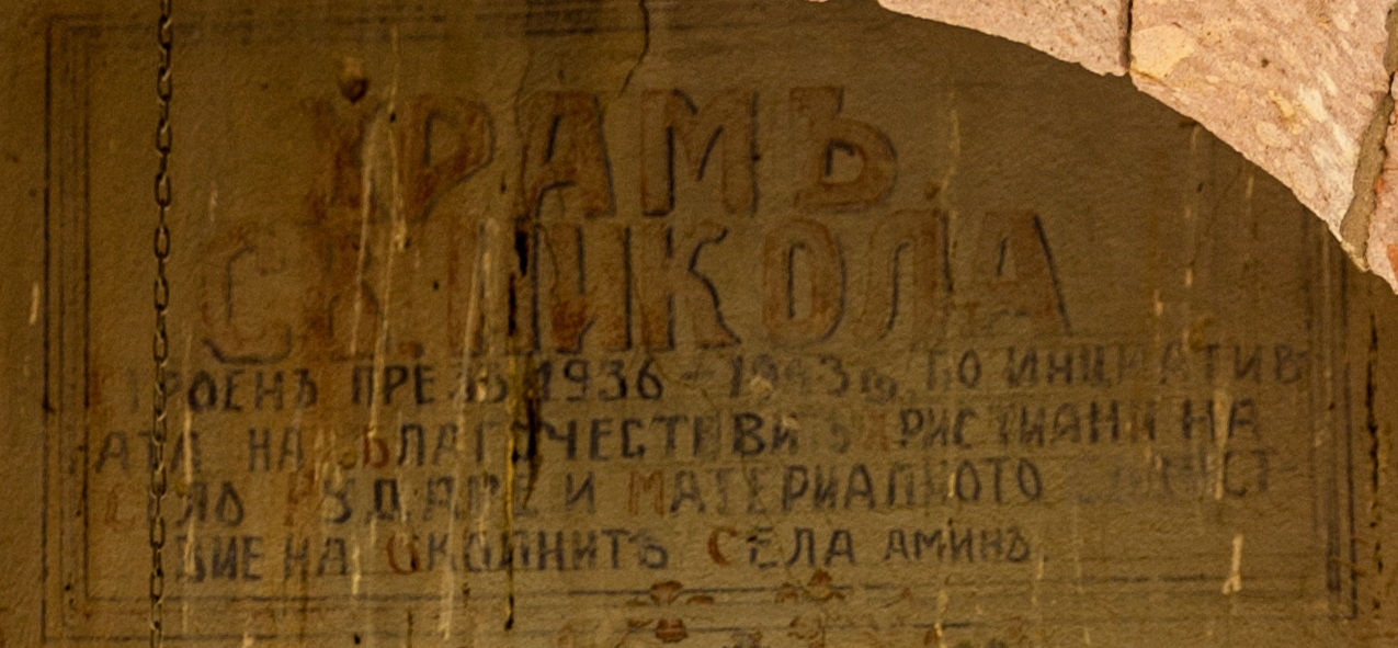 Entry in the St. Nicholas Church in Šopsko Rudare